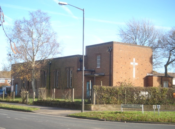 St Leonard's Church, Martyrs Avenue, Langley Green, Crawley, England.